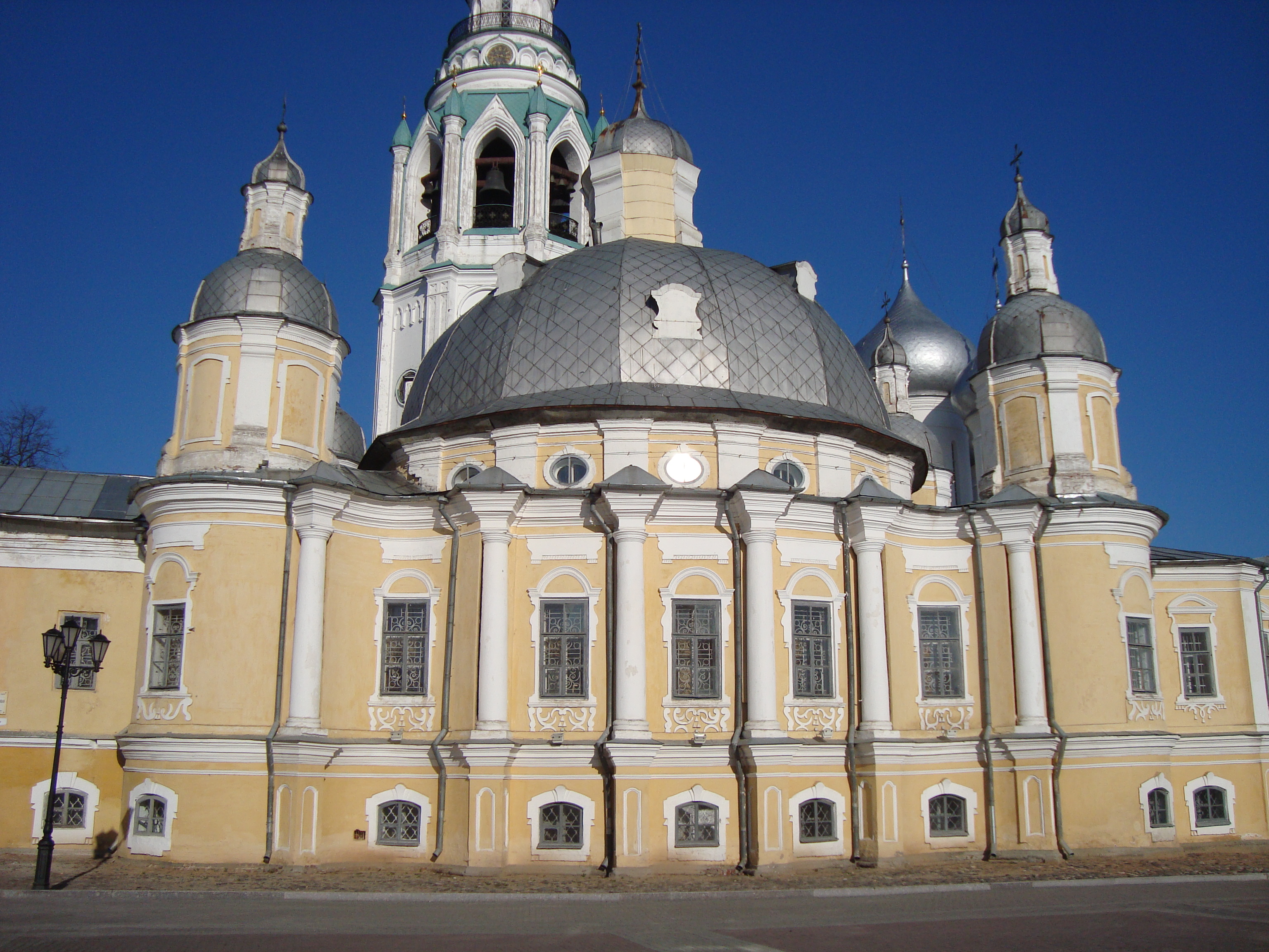 Resurrection Church (Vologda)